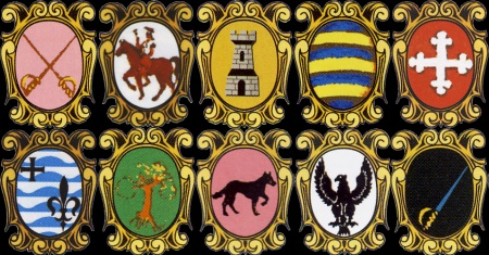 All the foligno's districts